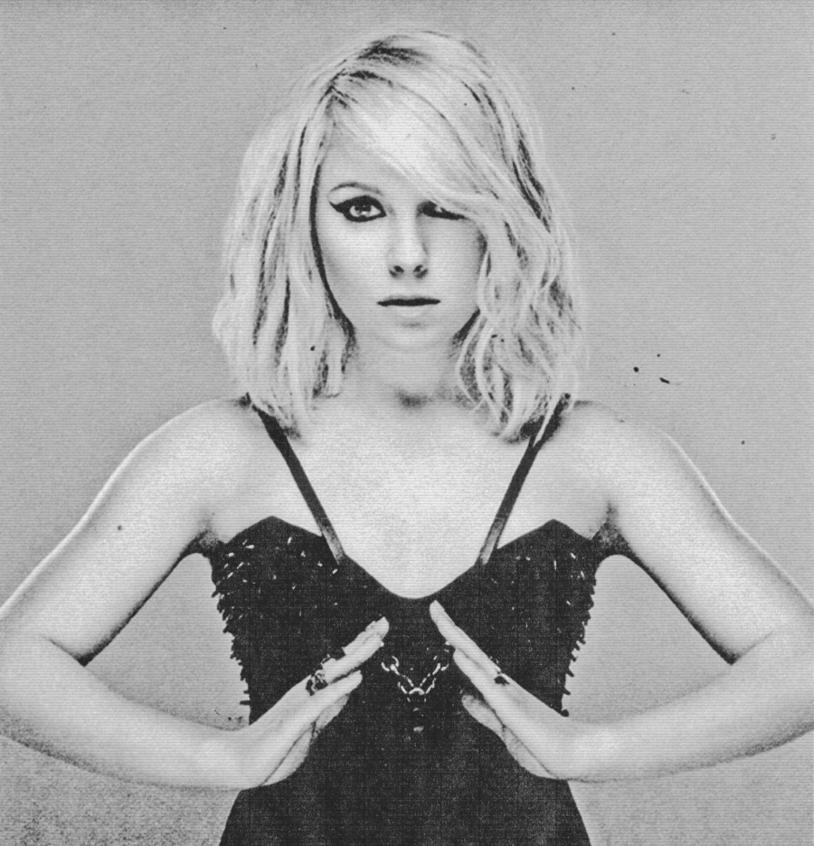 Headshot of singer Little Boots as provided by her record company, released under Creative Commons Attribution License v3.0